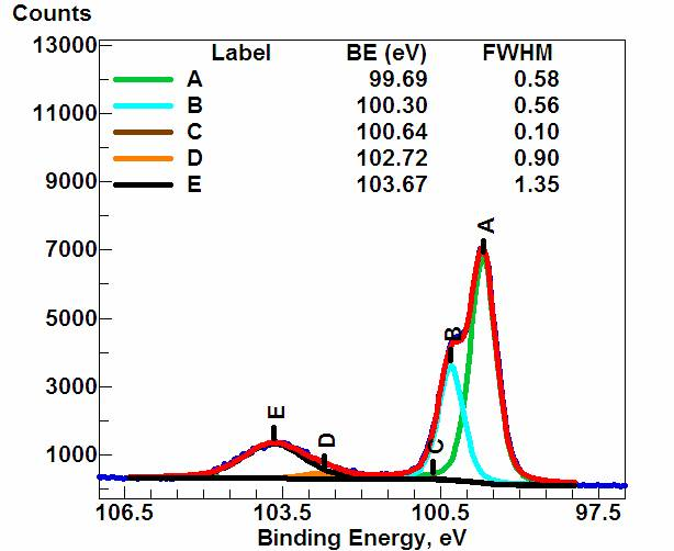 Example of "High Energy Resolution XPS Spectrum" also called High Res spectrum. This is used to decide what chemical states exist for the element being analyzed. In this example the Si (2p) signal reveals pure Silicon at 99.69 eV, a Si2O3 species at 102.72 eV and a small SiO2 peak at 103.67 eV. The amount of Si2O at 100.64 eV is very small.